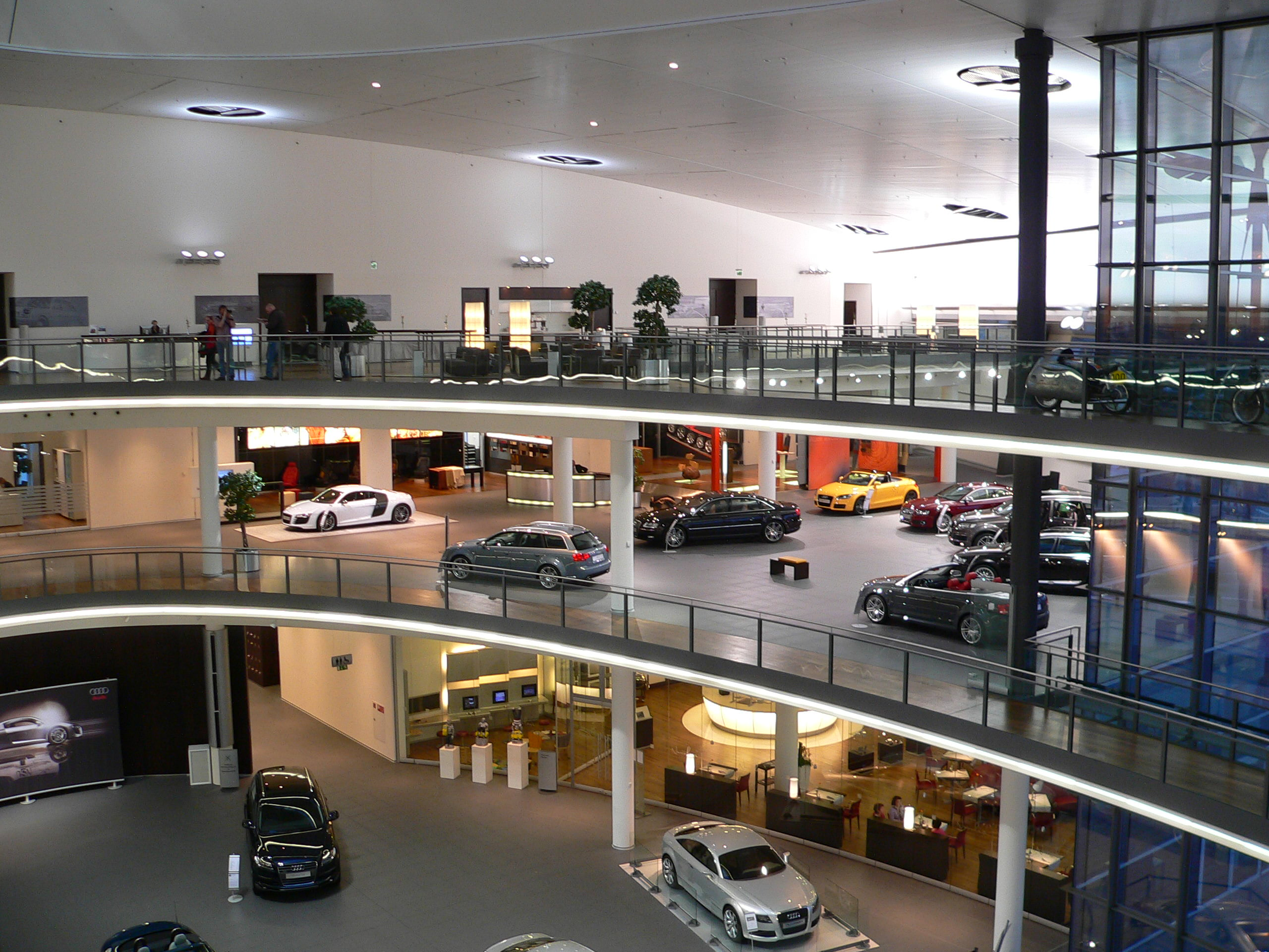 Interior view of the Audi-Forum of the Audi AG in the City Neckarsulm/Germany (view towards north-east)